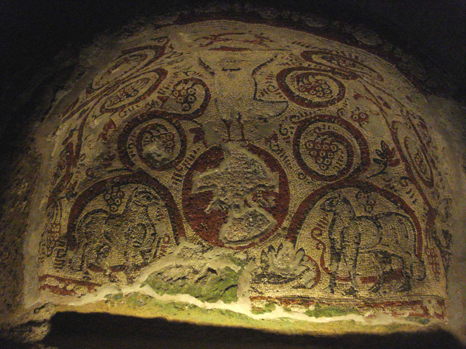 Triumph of the Cross - mosaic in San Gaudioso catacombs